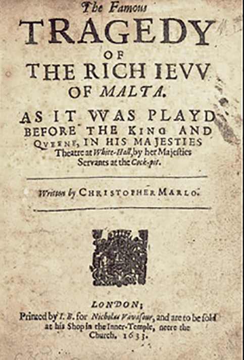 Title page of the play script of The Jew of Malta by English playwright Christopher Marlowe.